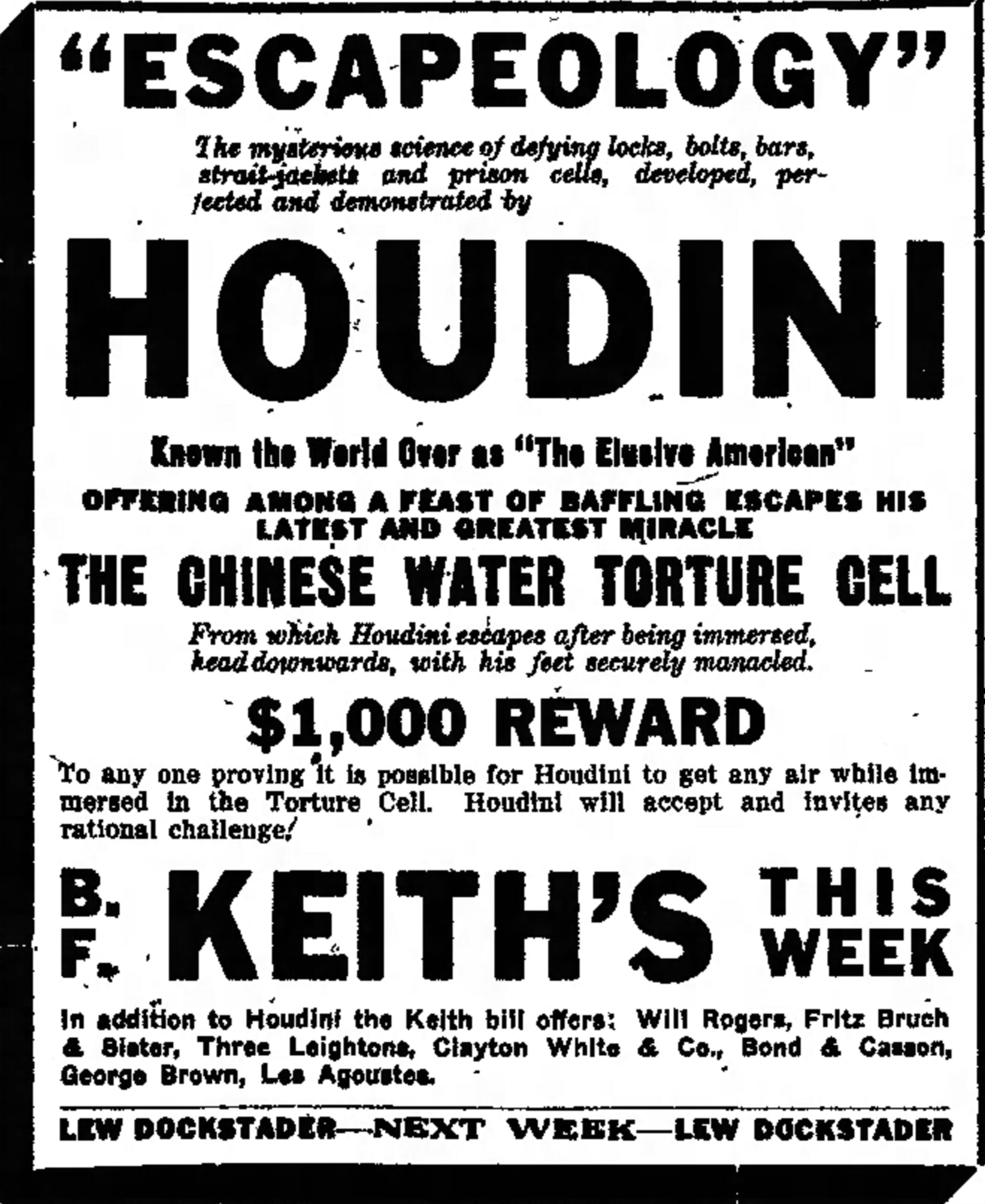 A newspaper advertisement for a show at "Keith's" starring Houdini and his "Chinese water torture cell" act.